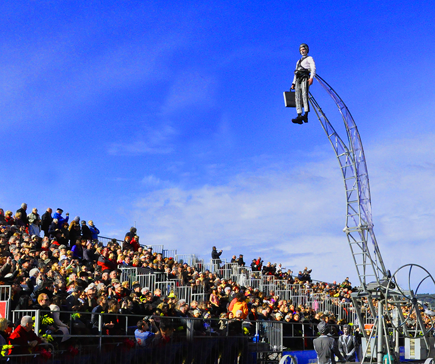 Huge metal objects thunders through the streets. This Flying Objects move through the audience, through the past, through the present and into the future. Forever searching its final destination...